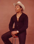 Recent Willie Francis Photo Willie Francis hit song Oh What a Mini